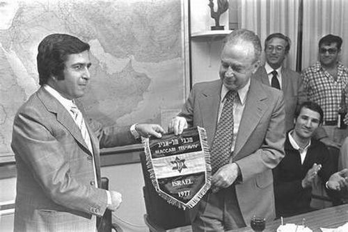 PM Yitzhak Rabin welcome the Maccabi Tel Aviv Basketball group after beating PBC CSKA Moscow in 1977. For more from the IDF